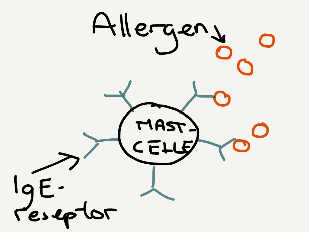 Allergens attaching to IgE reseptor on mast cell